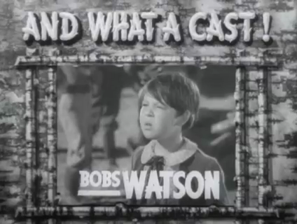 Bobs Watson in Wyoming, by Richard Thorpe (1940)